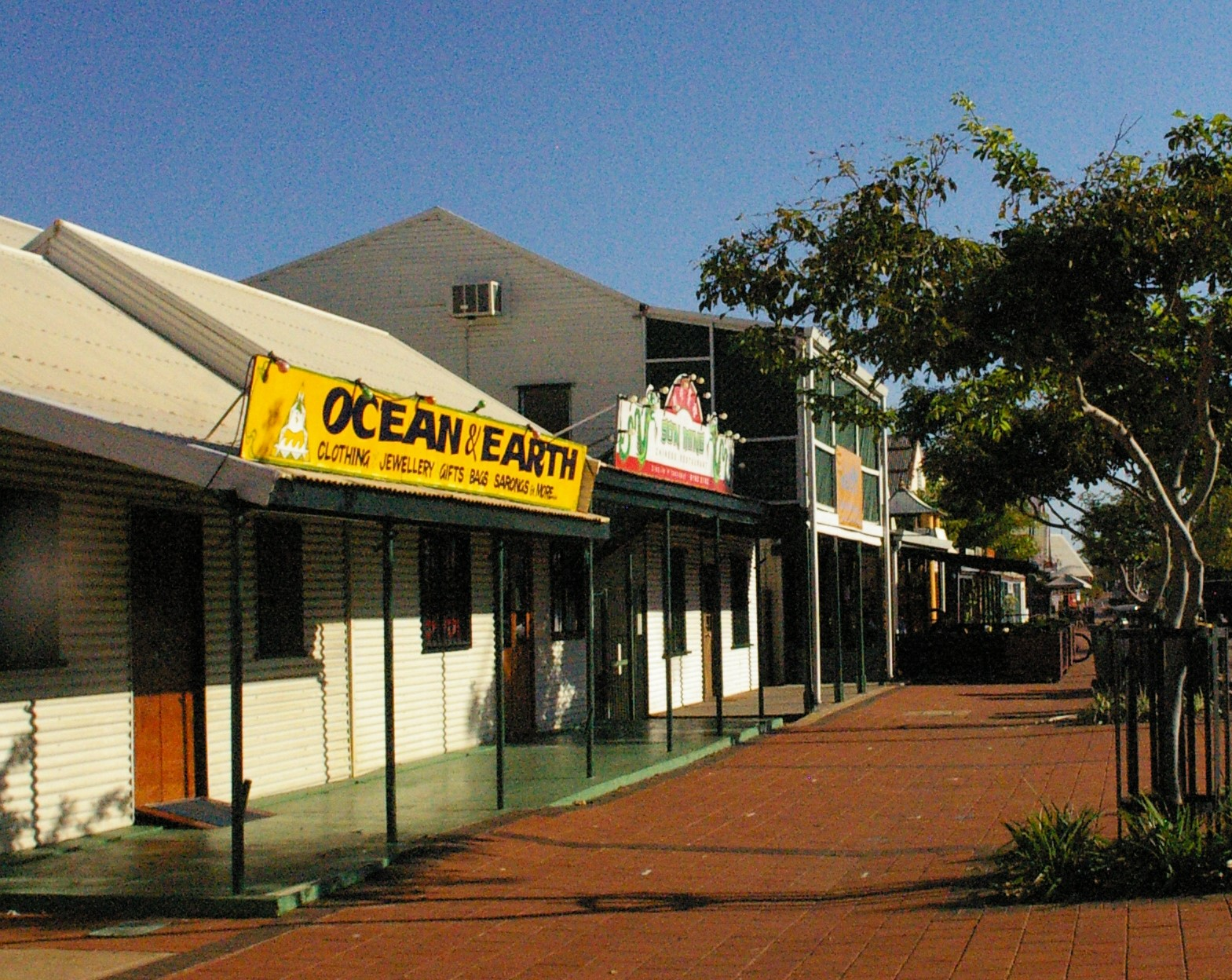 A view north along the west side of Chinatown, Broome. Some buildings date back prior to 1900. 2668, Heritage Place No. 293, Heritage Place No. 15879, Heritage Place No. 16878, Heritage Place No. 15881, Heritage Place No. 16877, Heritage Place No. 15880, Heritage Place No. 15878, Heritage Place No. 2668, Heritage Place No. 293, Heritage Place No. 15879, Heritage Place No. 16878, Heritage Place No. 15881, Heritage Place No. 16877, Heritage Place No. 15880, Heritage Place No. 15878